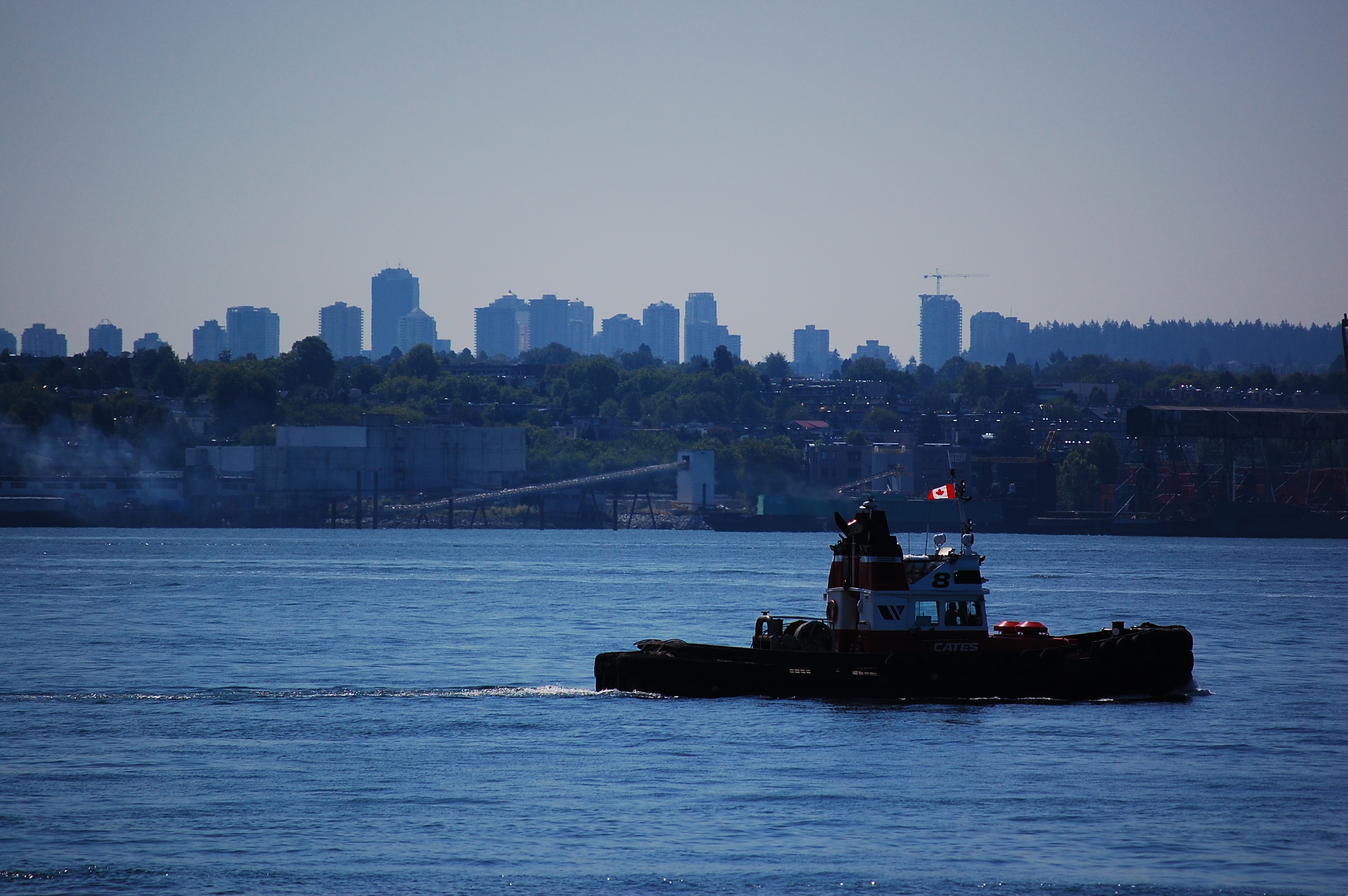 A Cates tug in Vancouver harbour